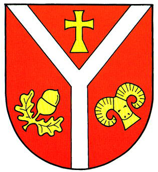 Coat of arms of the municipality of Groß Ippener